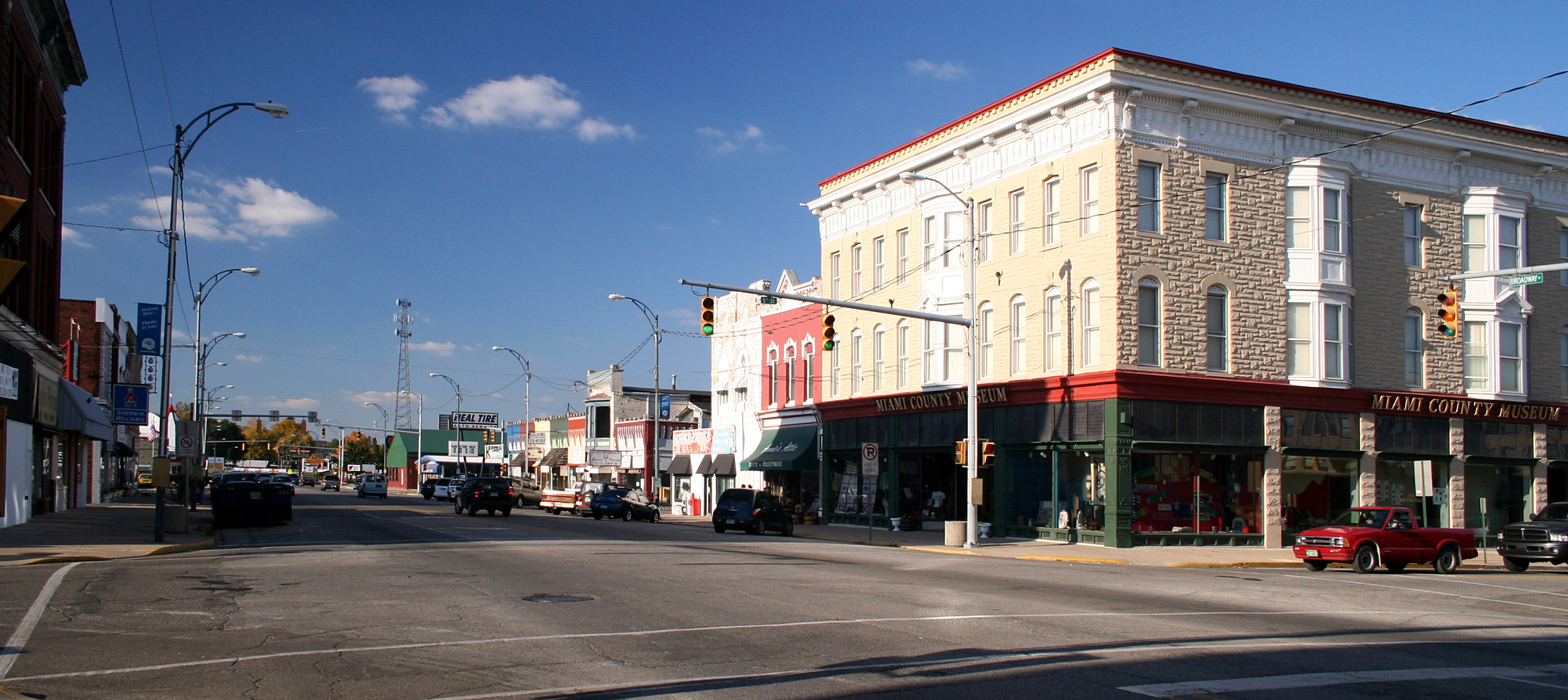 Downtown Peru, Indiana, with the Miami County Museum on the right. Photo shot by Derek Jensen (Tysto), 2005-October-28